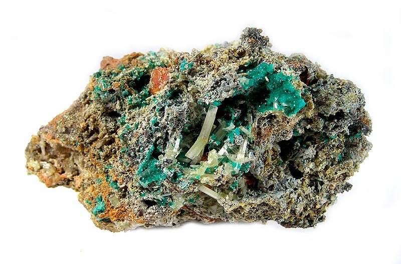 Dioptase, Cerussite, Wulfenite Locality: Mammoth-Saint Anthony Mine (Mammoth-St Anthony Mine; Mammoth Mine; St. Anthony Mine), St. Anthony deposit, Tiger, Mammoth District, Pinal County, Arizona, USA (Locality at ) This oldtimer is an example of the species combinations for which the Mammoth Mine was so famous. Drusy, emerald green, lustrous, translucent, dioptase is associated with acicular, lustrous crystals of cerussite, to 1.2 cm in length along with a few, orange, wulfenite crystals, to .5 cm across. In fact, the whole matrix is highly porous, giving a home to the various species. 6.6 x 3.8 x 3.3 cm